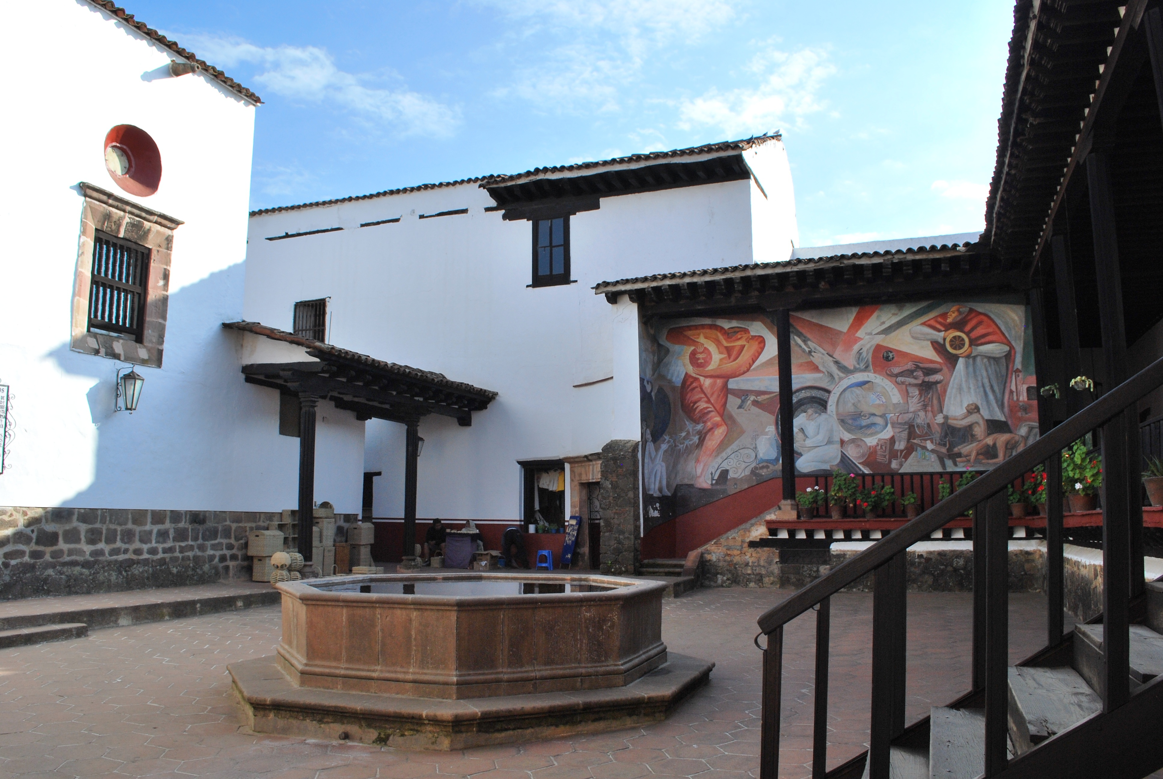 Entrance courtyard of the Casa de los Once Patios in Patzcuaro, Michoacan